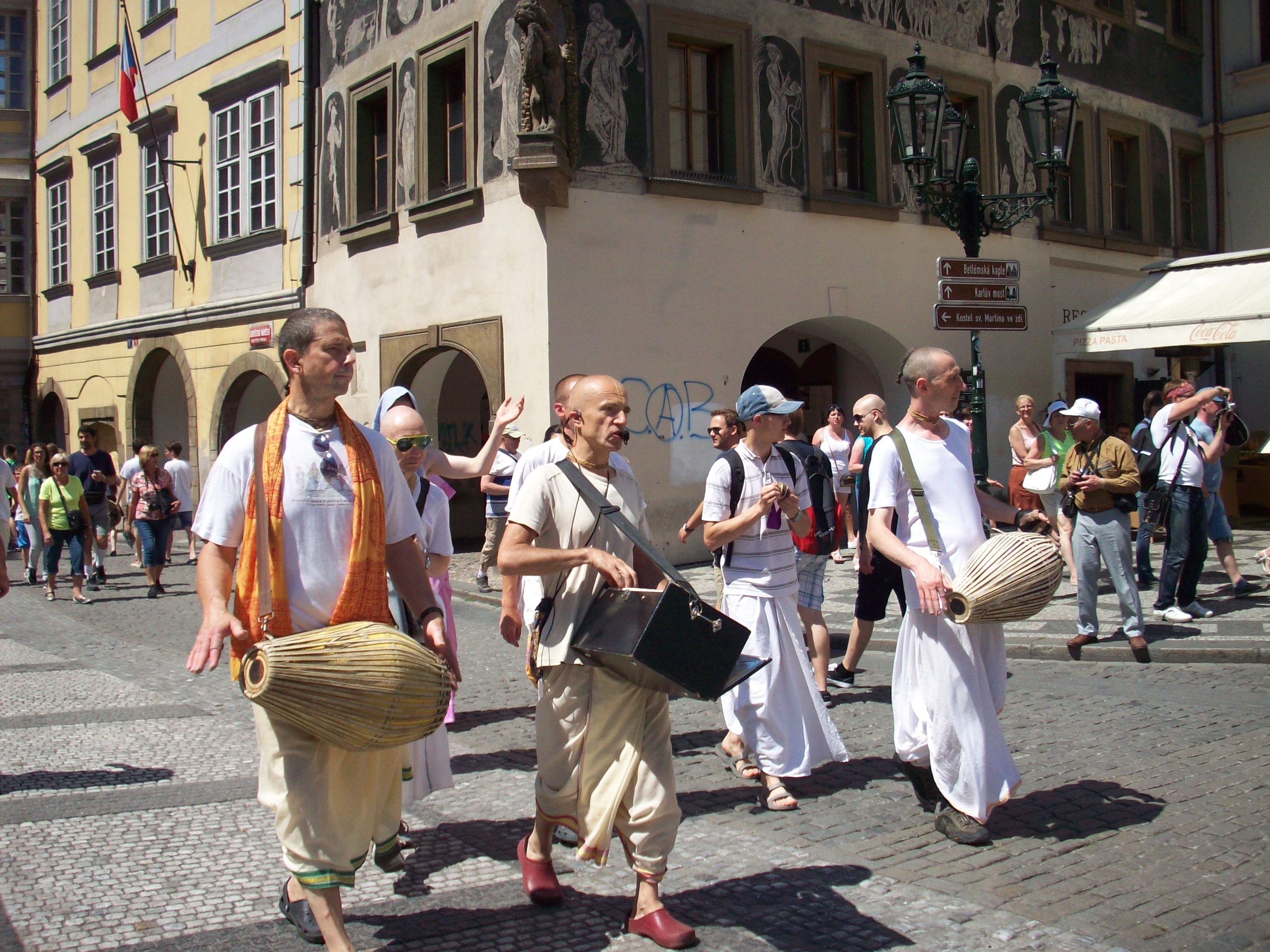 Hare Krishna musicians at Staromestske Namesti, Prague, Czech